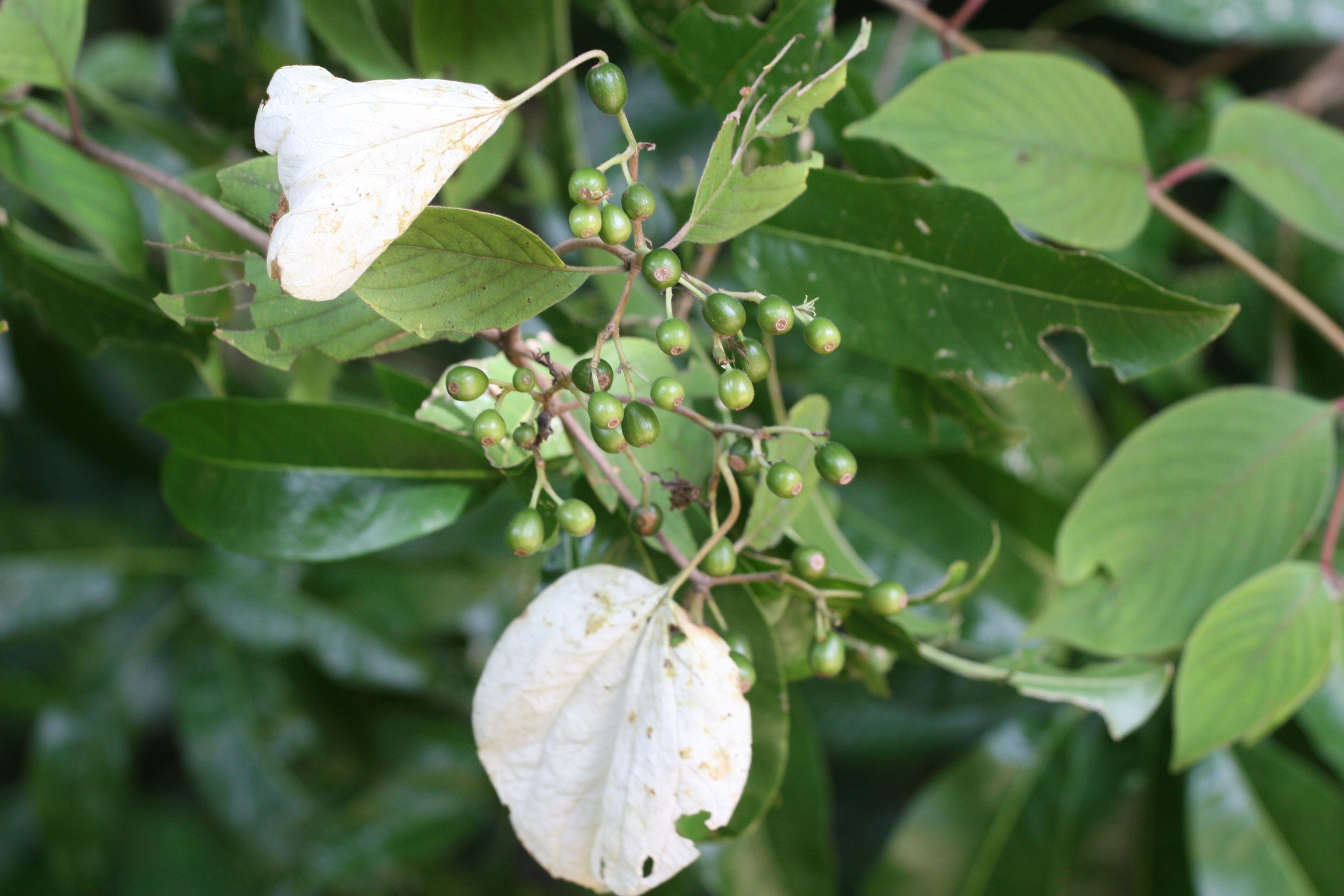 M.frondosa